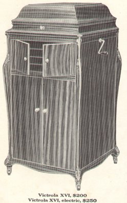 a Victrola Model XVI, scanned from a en:1919 ad